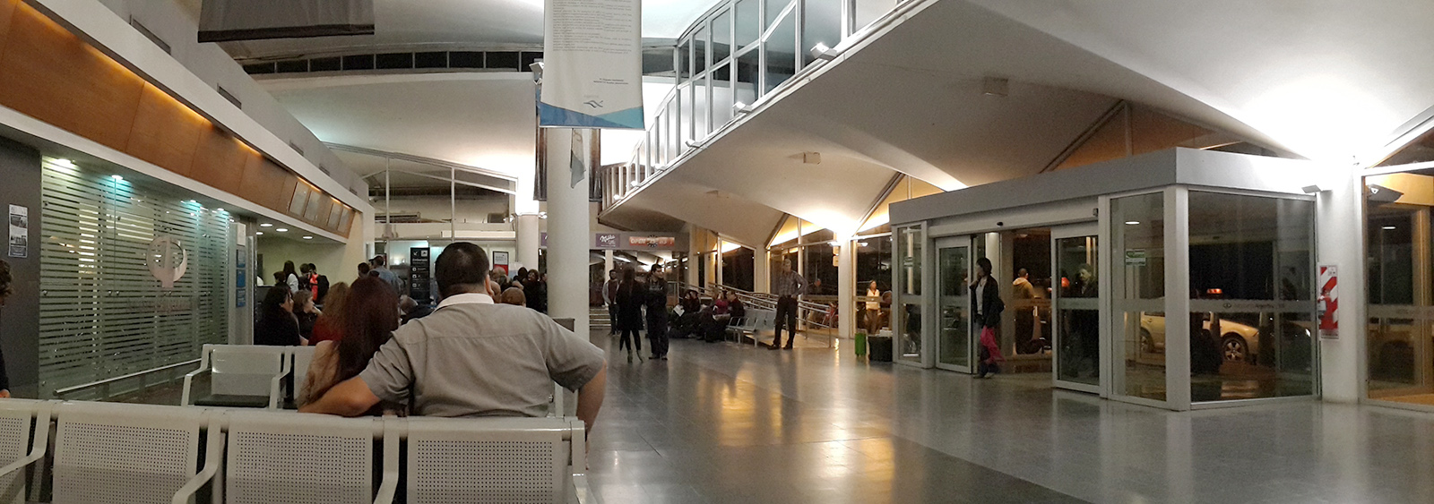 Check in hall of Aeropuerto Internacional Resistencia